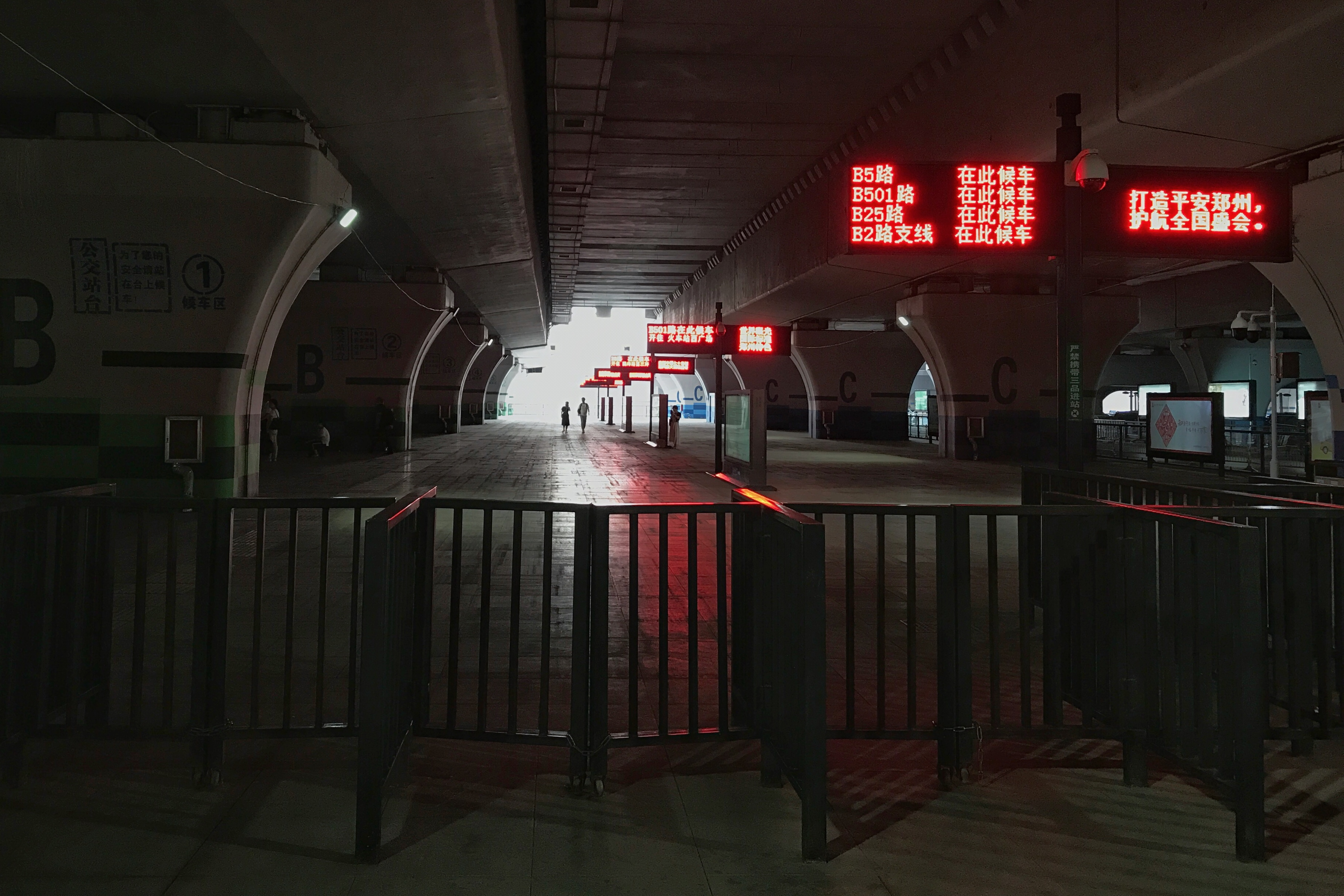 Platform of Zhengzhou BRT at Zhengzhoudong Railway Station